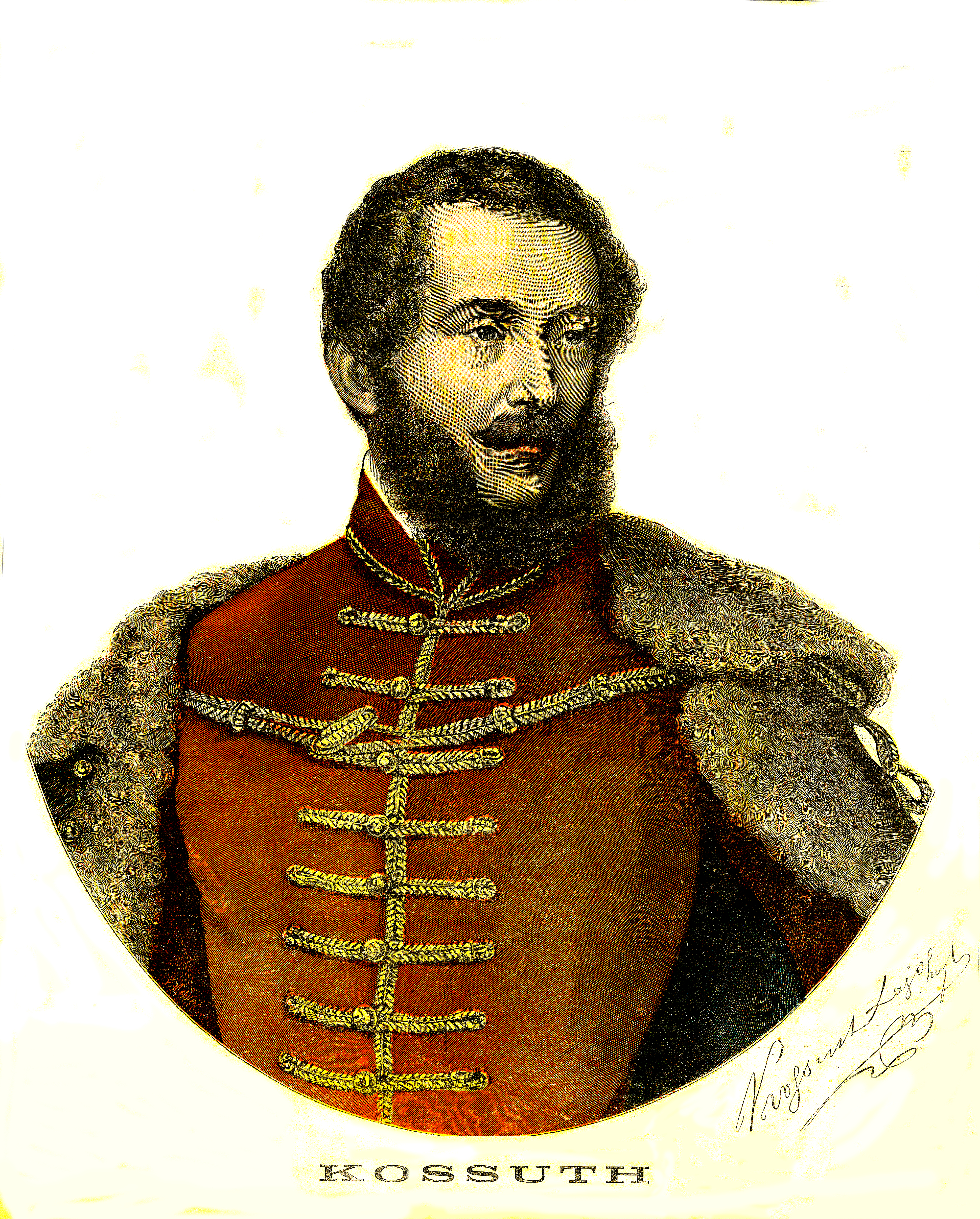 Lajos Kossuth Pp. (321), 327; col. wood-engr. cover ill. after Meyer; oval bust port. in uniform